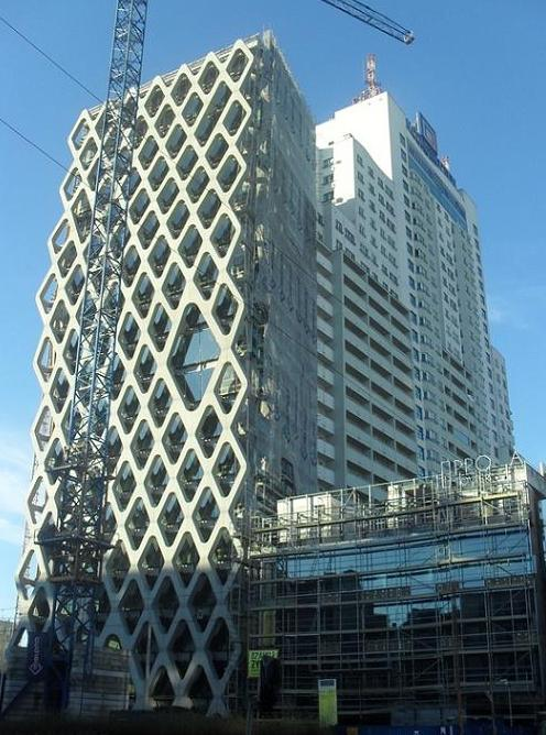 Prosta Tower, construction in November 2010